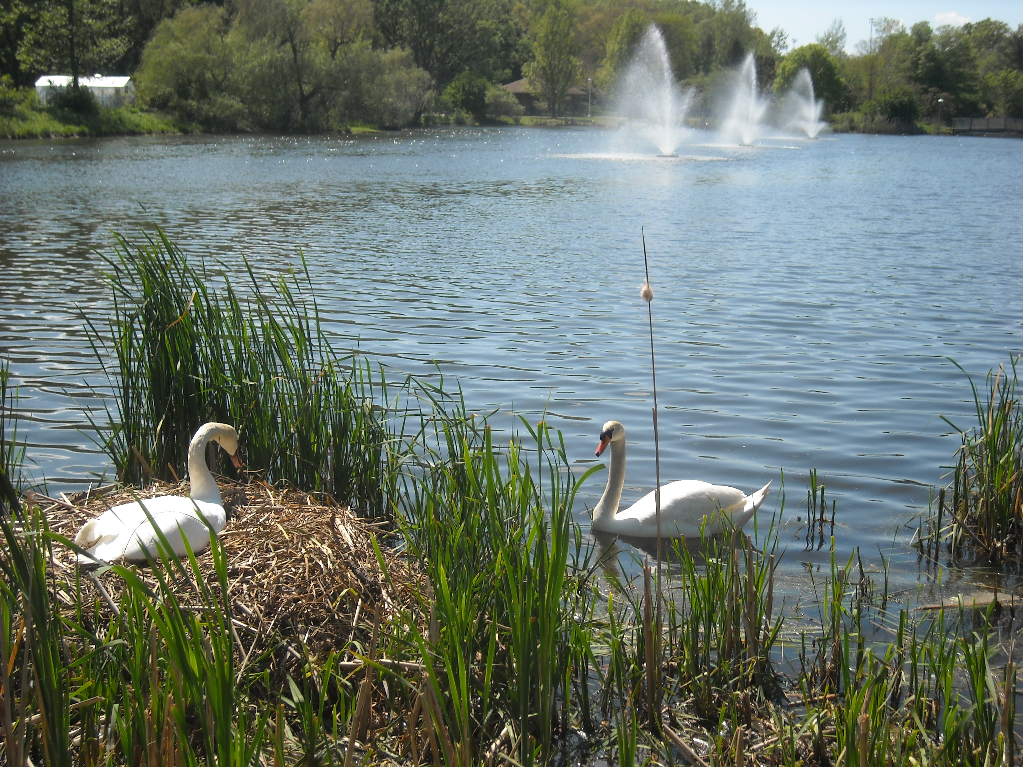 Swan nest at Western Michigan University in Kalamazoo during the 2012 International Congress on Medieval Studies